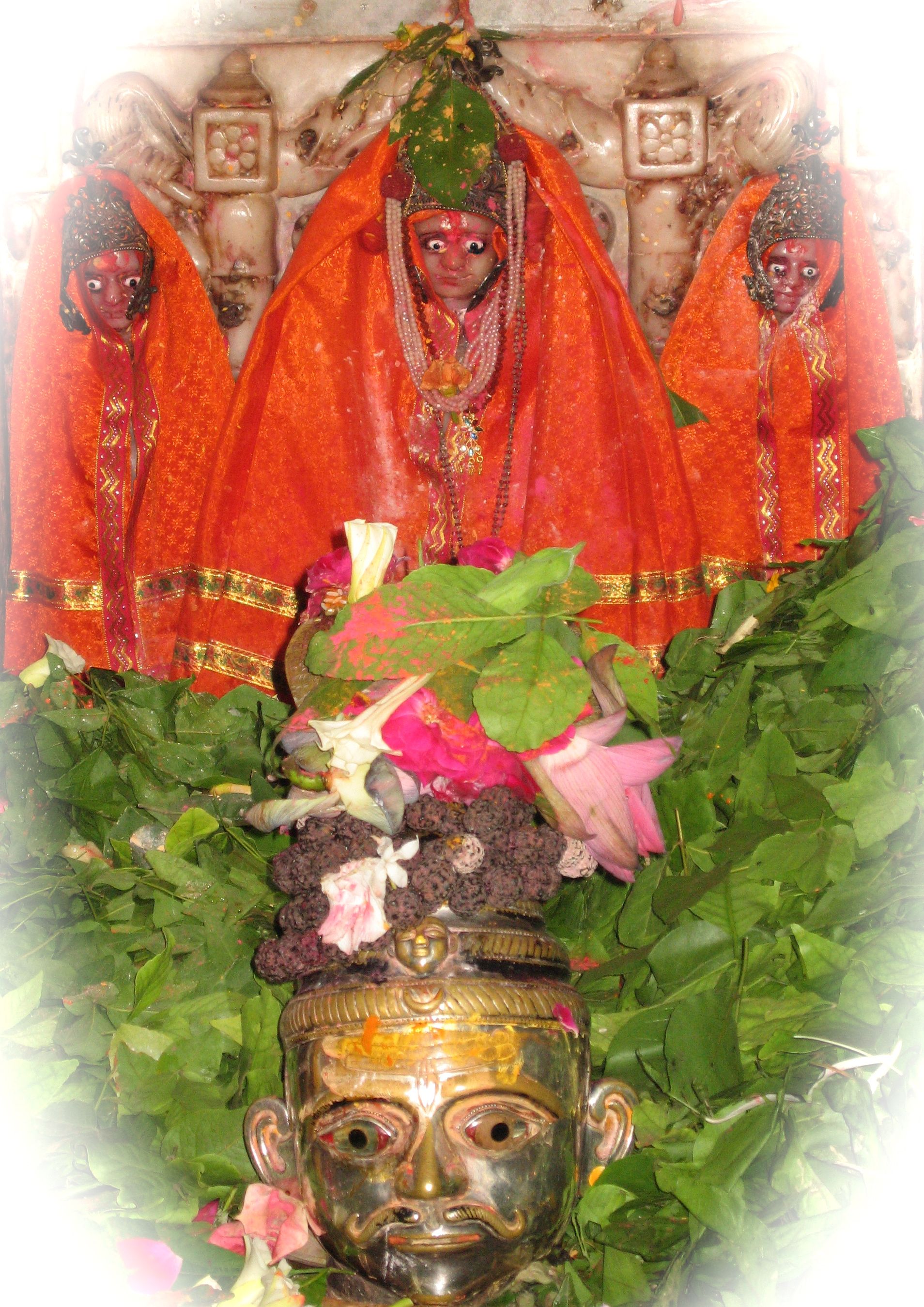 A Picture of Swayambhoo Mahadev - Lord Shiva of Saldi, India